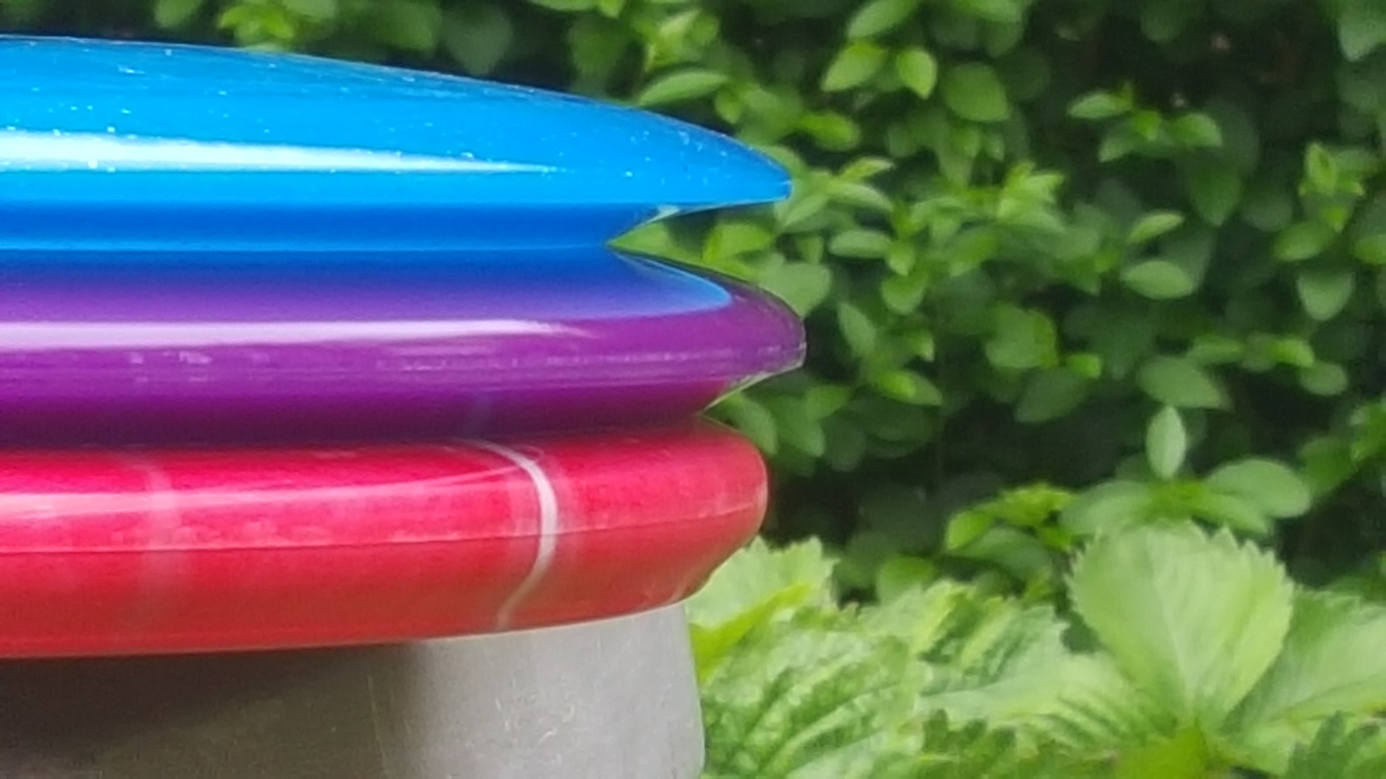 This edge view of three disc golf discs shows the characteristic edge profiles of a long-distance driver (top), a mid-range disc (middle), and a putter (bottom)